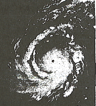 Typhoon Tip shortly before its maximum intensity of 870 mb. on October 12, en:1979. From